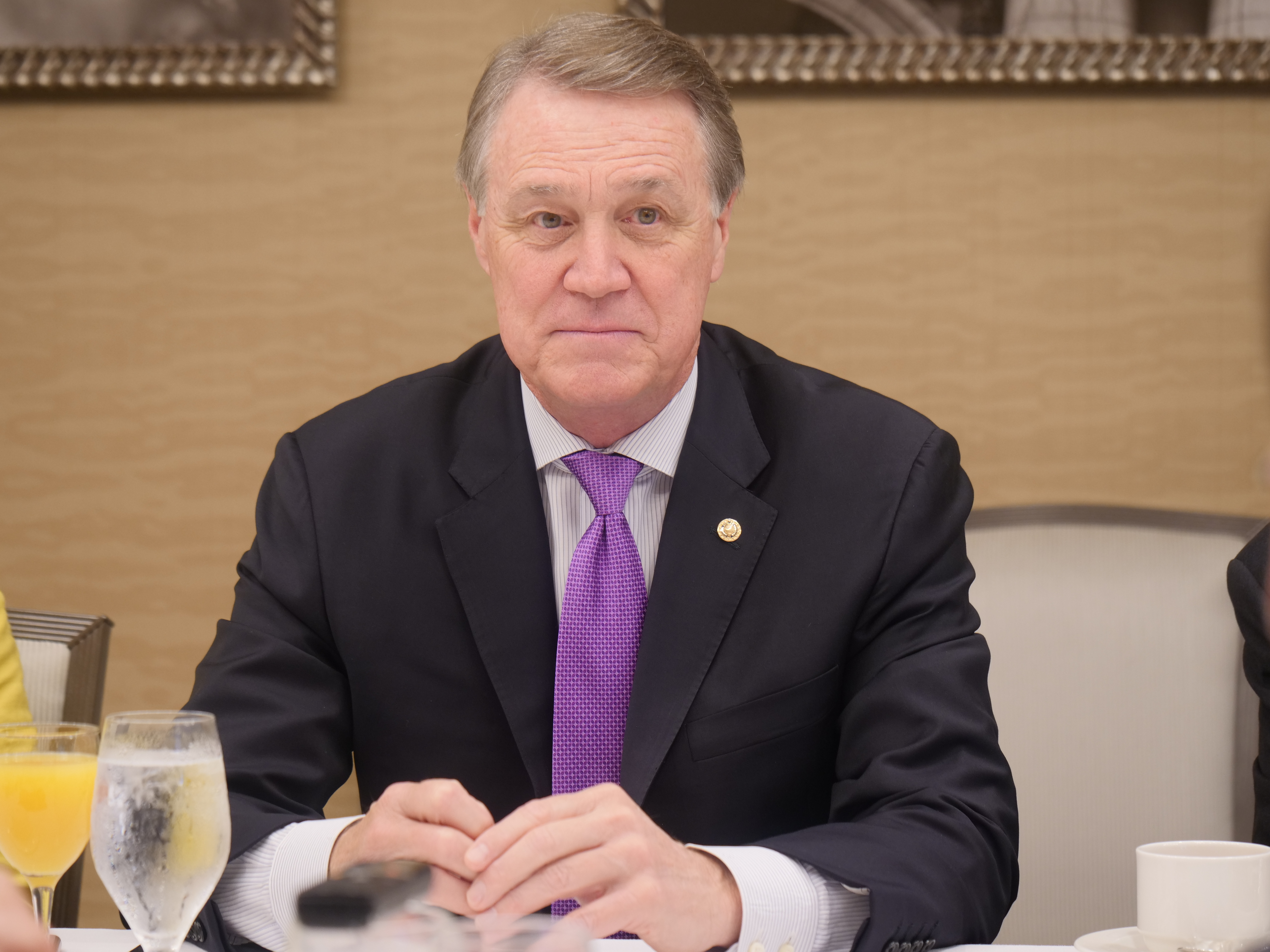 Senator David Perdue met with journalists from the Defense Writers Group, an association of news outlets with reporters that cover national security issues, at the Fairmont Hotel on Tuesday, June 12, 2018. The Defense Writers Group is housed at the George Washington University's School of Media and Public Affairs under the Project for Media and National Security.